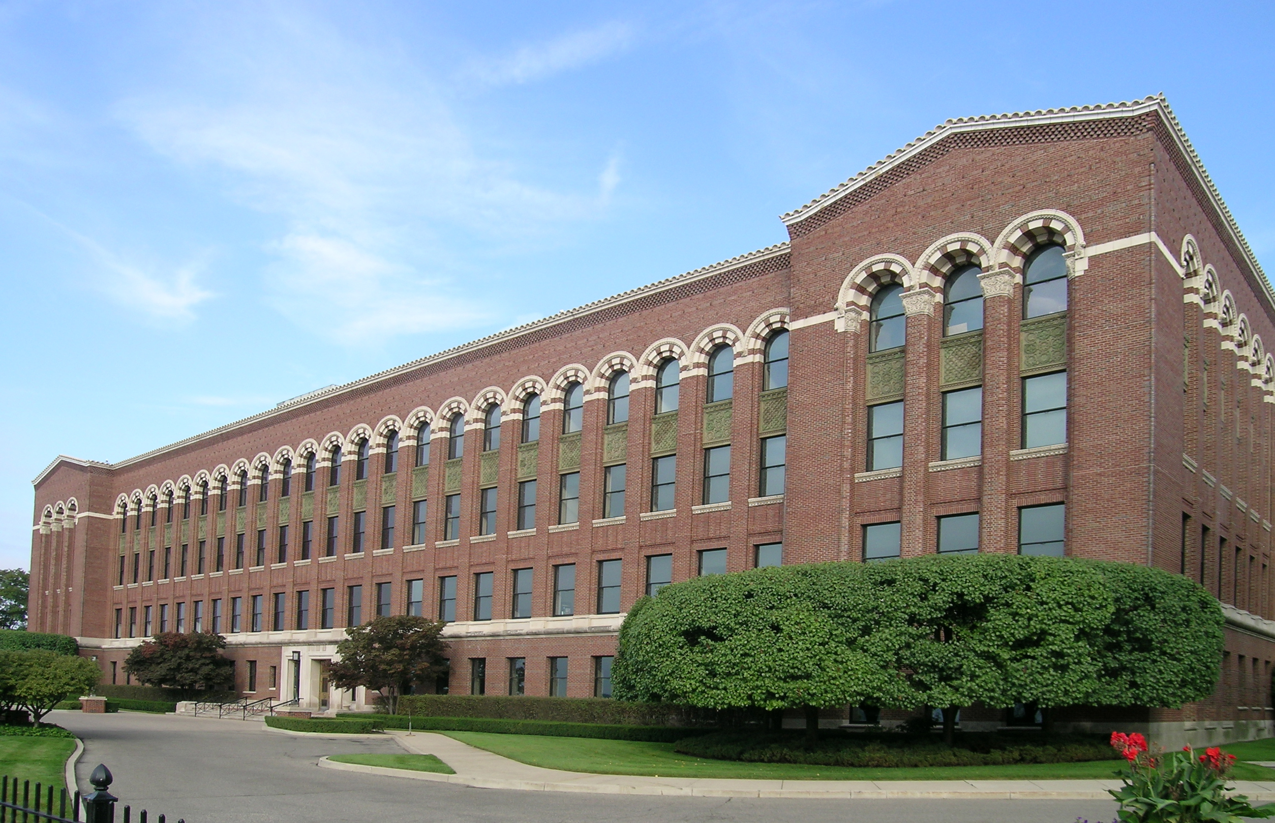 Parke-Davis Plant in Detroit MI--building on the Detroit River